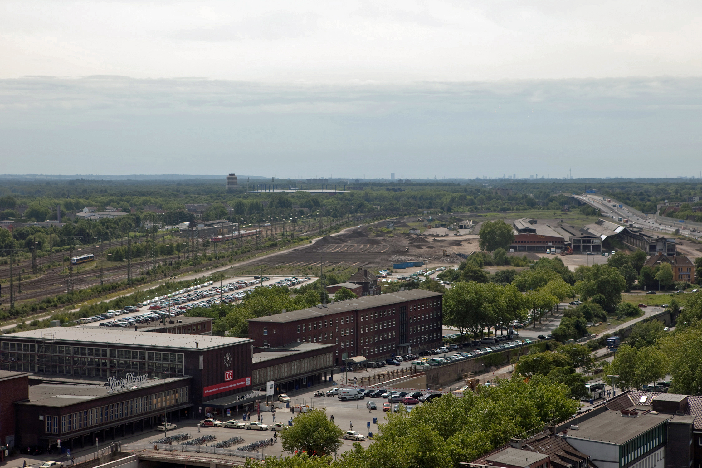 Area of the Loveparade 2010 main event in Duisburg (in the background of the Duisburg Central station; Autobahn 59 on the right).